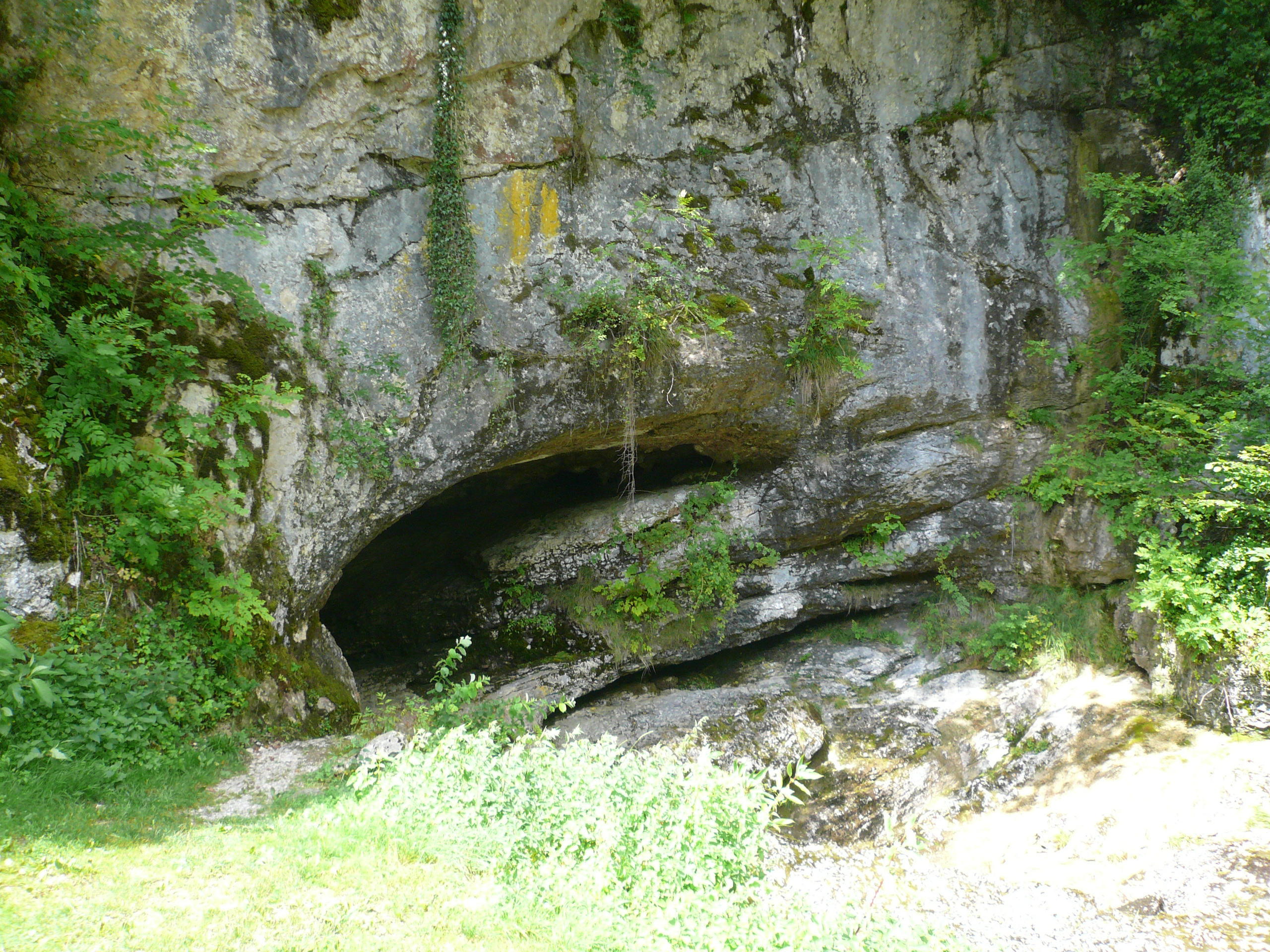 Entrance of Prérouge cave, located in Arith, Savoy, Rhône-Alpes, France.